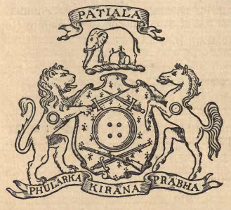 Coat of Arms of the Indian princely state of Travancore